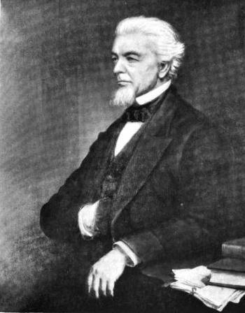 Portrait of Connecticut Governor William Wolcott Ellsworth.